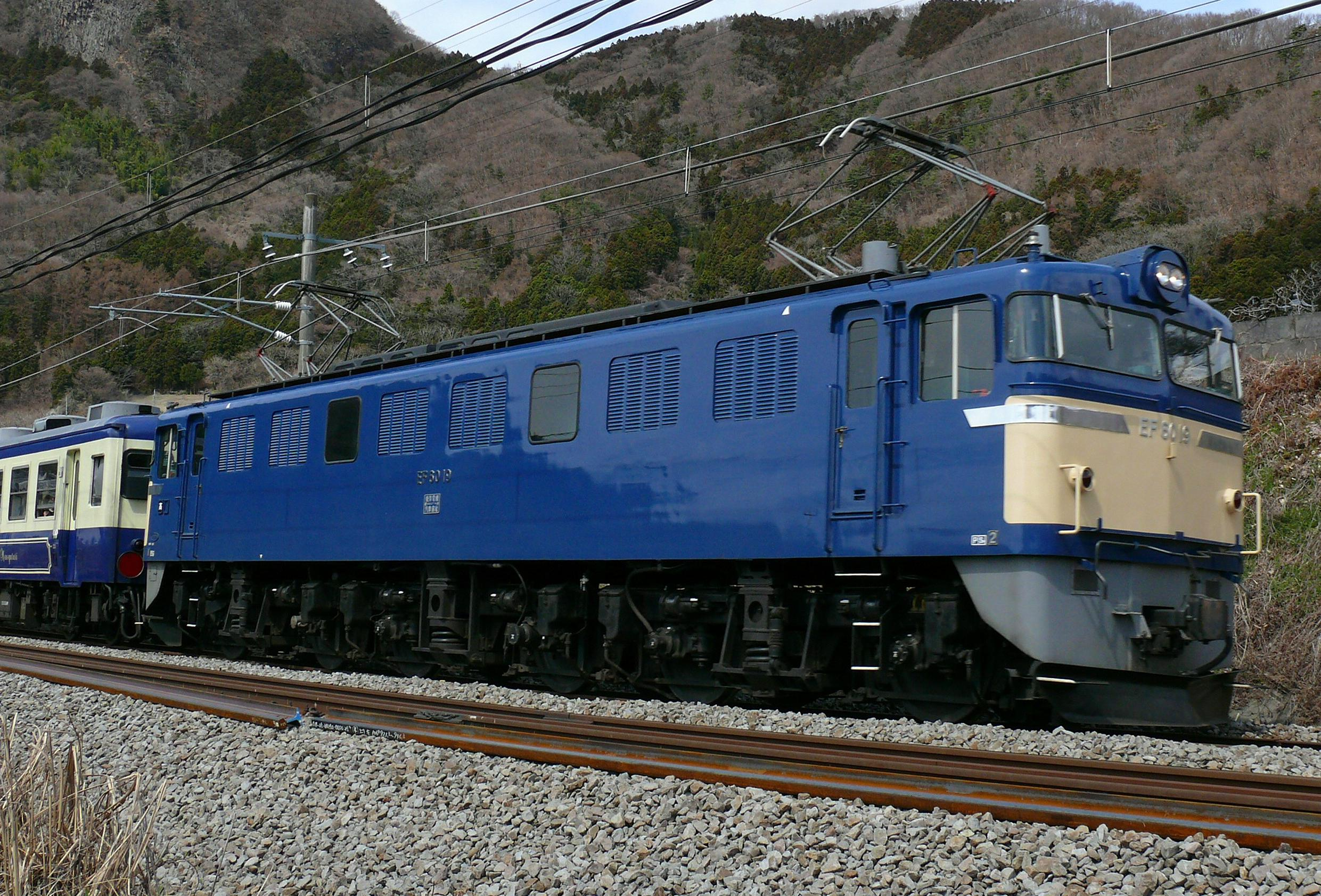 JR East Class EF60 electric locomotive EF60 19 on a special event train on the Joetsu Line between Tsukuda and Iwamoto stations